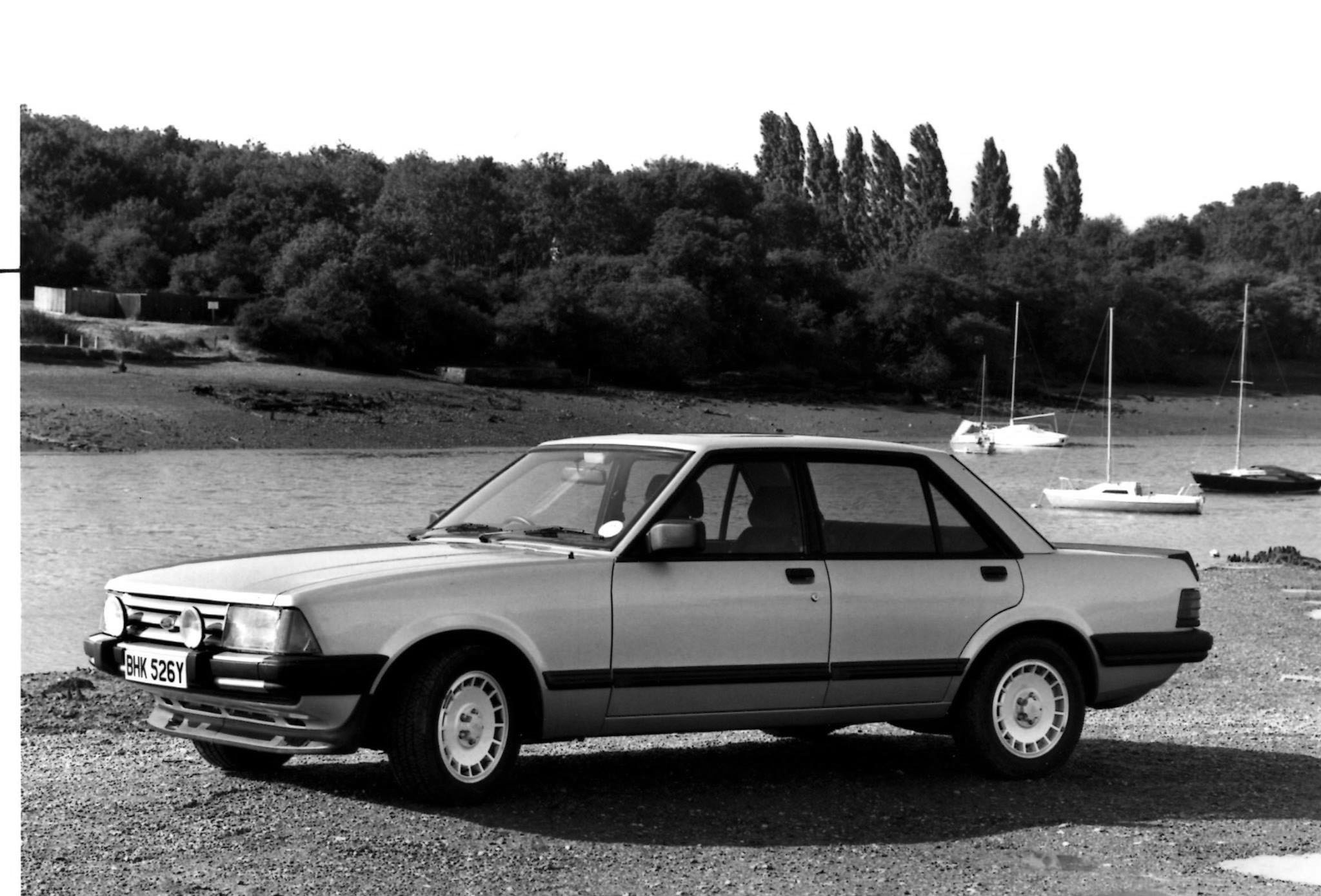 82-85 Ford Granada 2.8 Injection